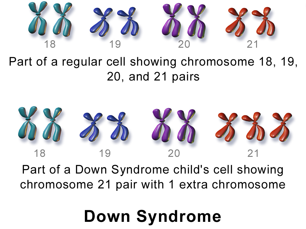 Down Syndrome. See a full animation of this medical topic.